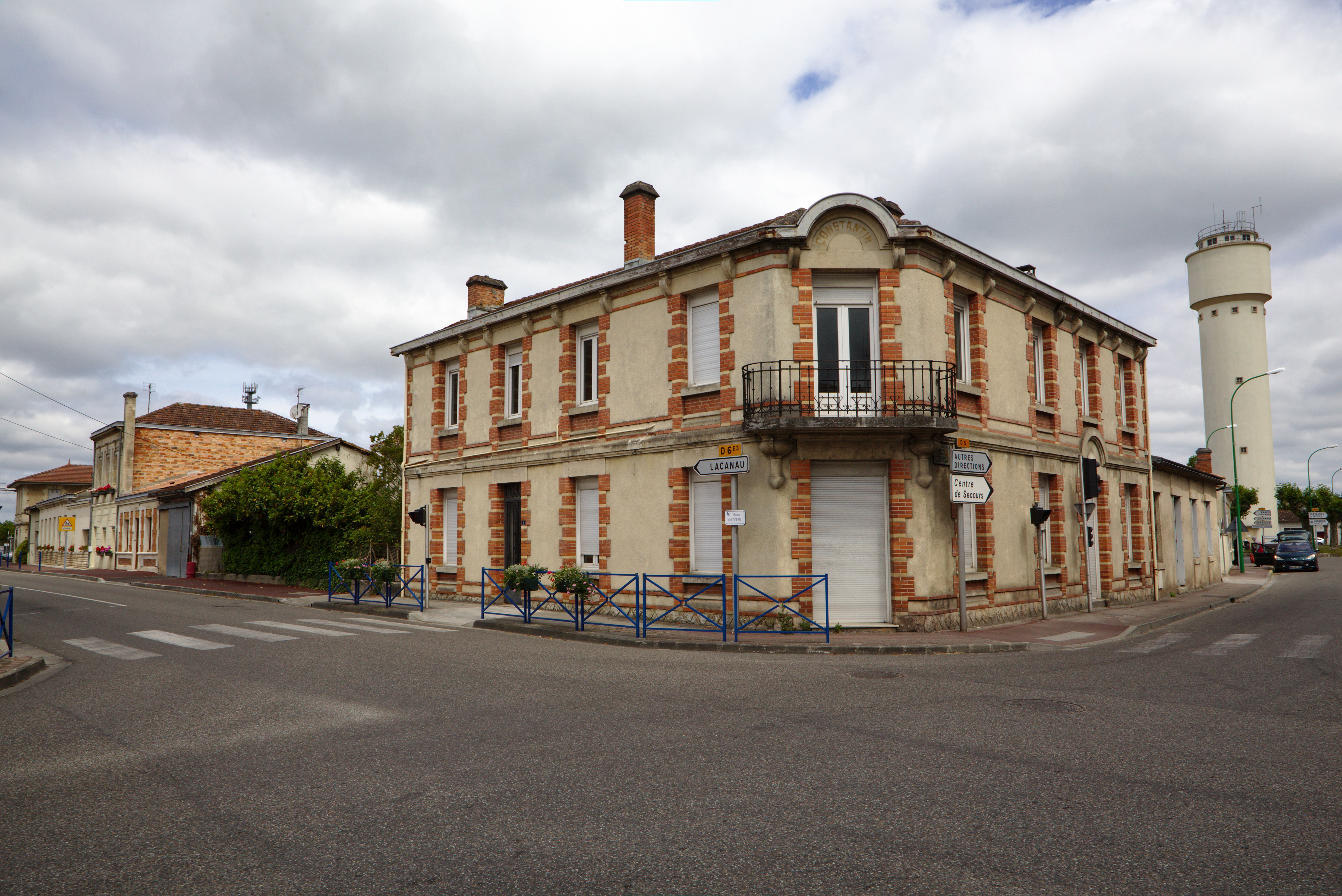 Former Hôtel Constantin